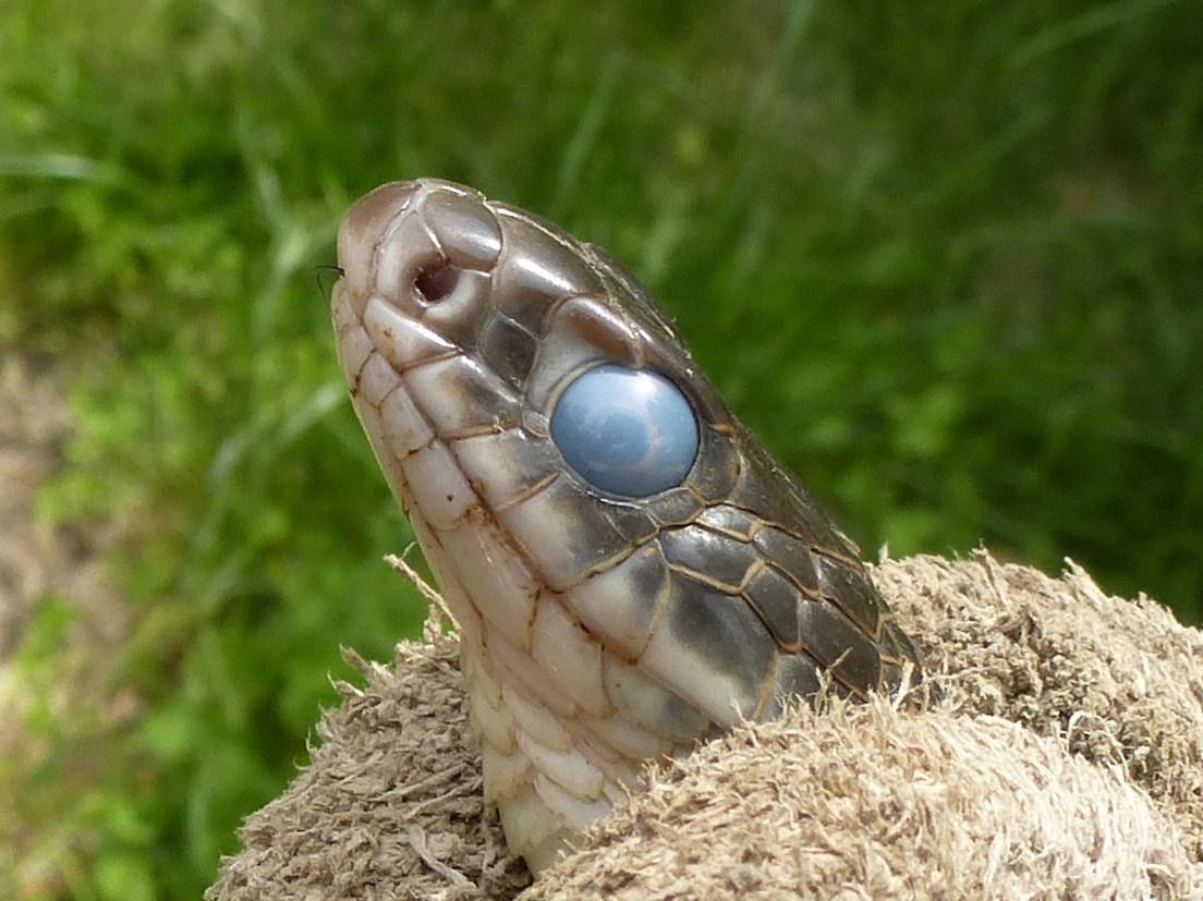 Rat snake (Pantherophis obsoletus) showing cloudy eye as molting begins. Missouri Ozarks.